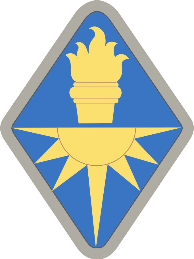 United States Army Intelligence Center SSI from [1]